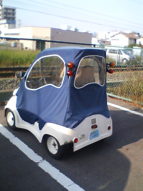 Micro car maid Mitsuoka Motors.